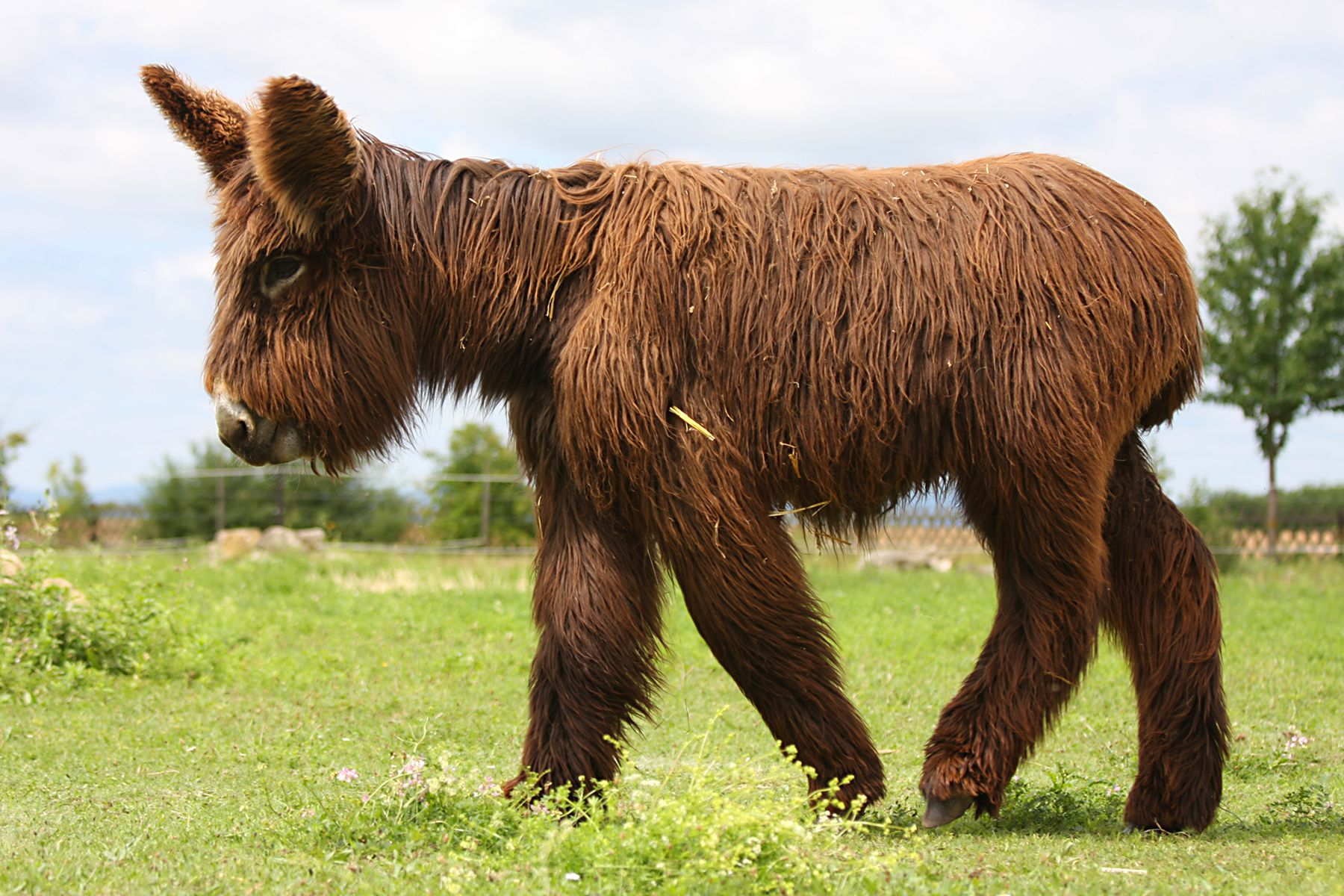 One year old poitou donkey »Amelie«. Amelie belongs to the Nature Life Ranch in Schwabenheim, Germany.